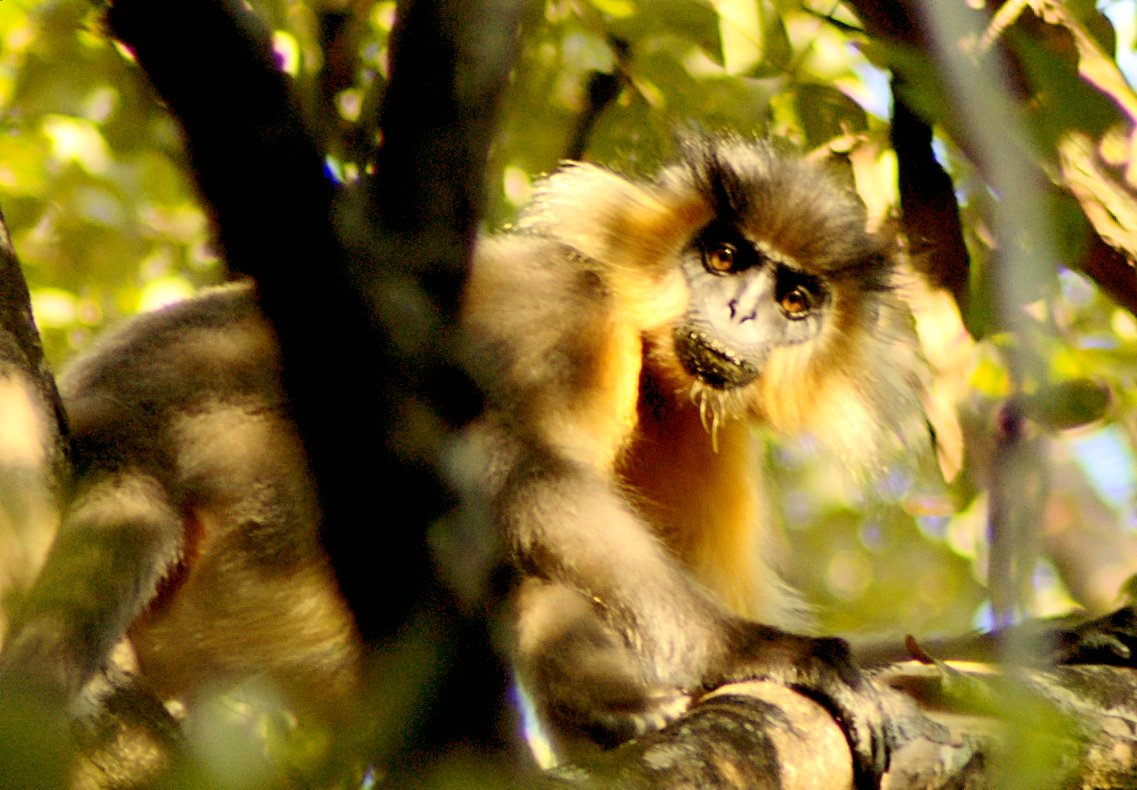 A capped langur at the Manas national Park, Assam, India